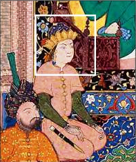 Painting of Hurmuzd in The Shahnama of Shah Tahmasp